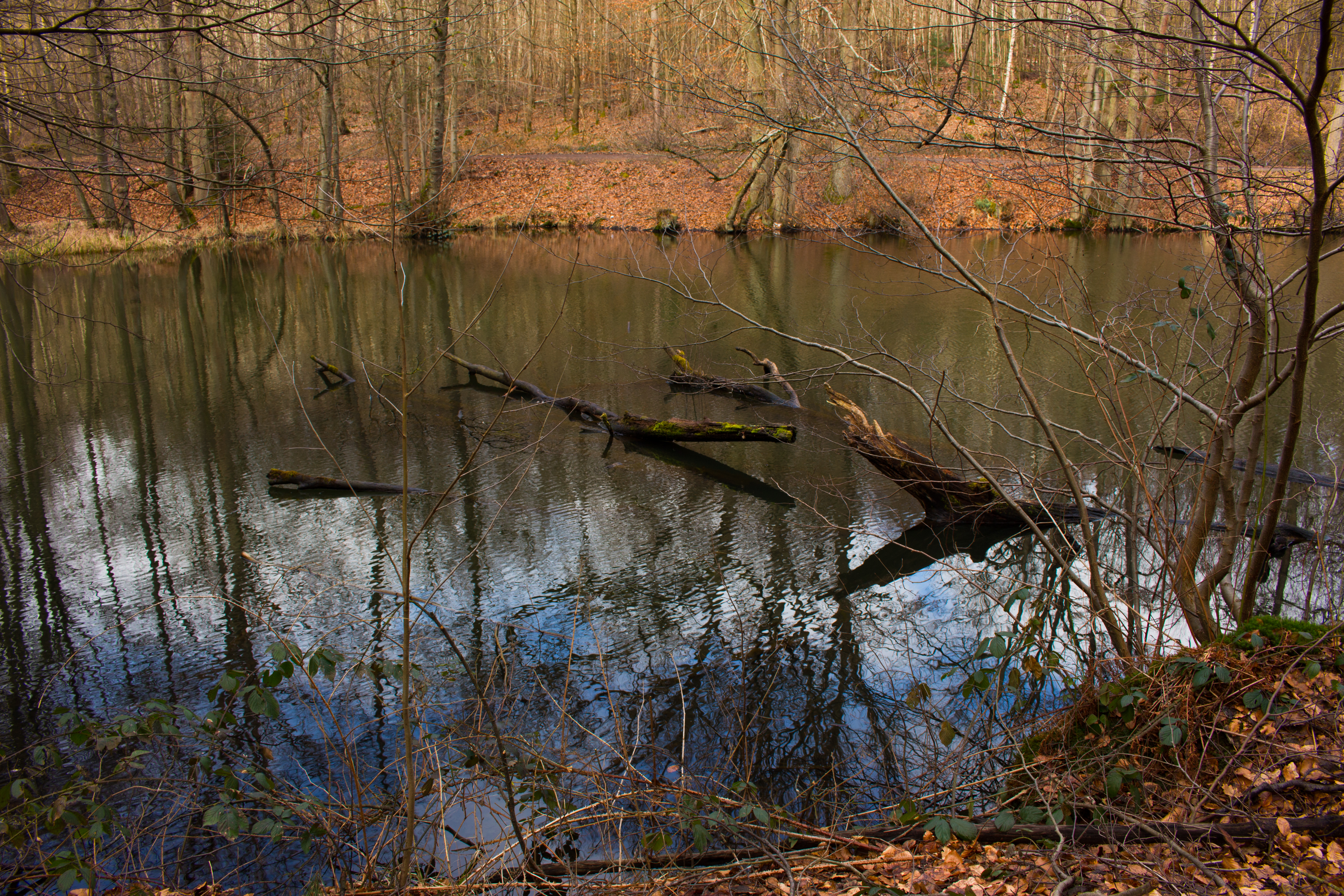 View of the "Blechhammer", while walking from the hotel